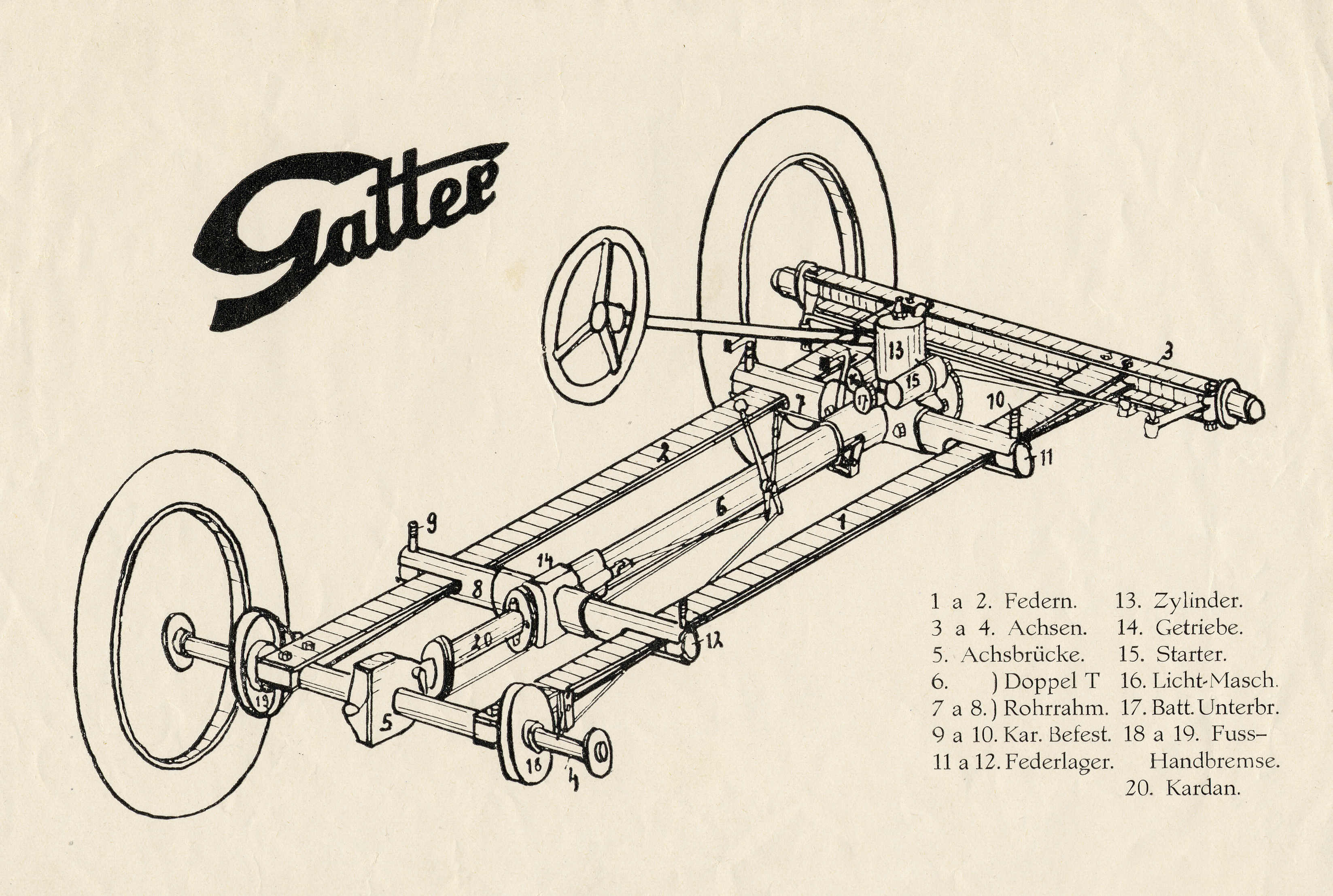 Advertisement of the Gatter Car Company in Reichstadt (Zakupy) of 1934, Czech Republic